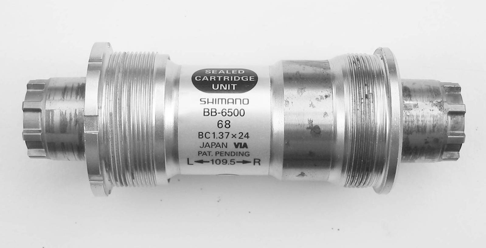 Shimano Ultegra cartridge bottom bracket